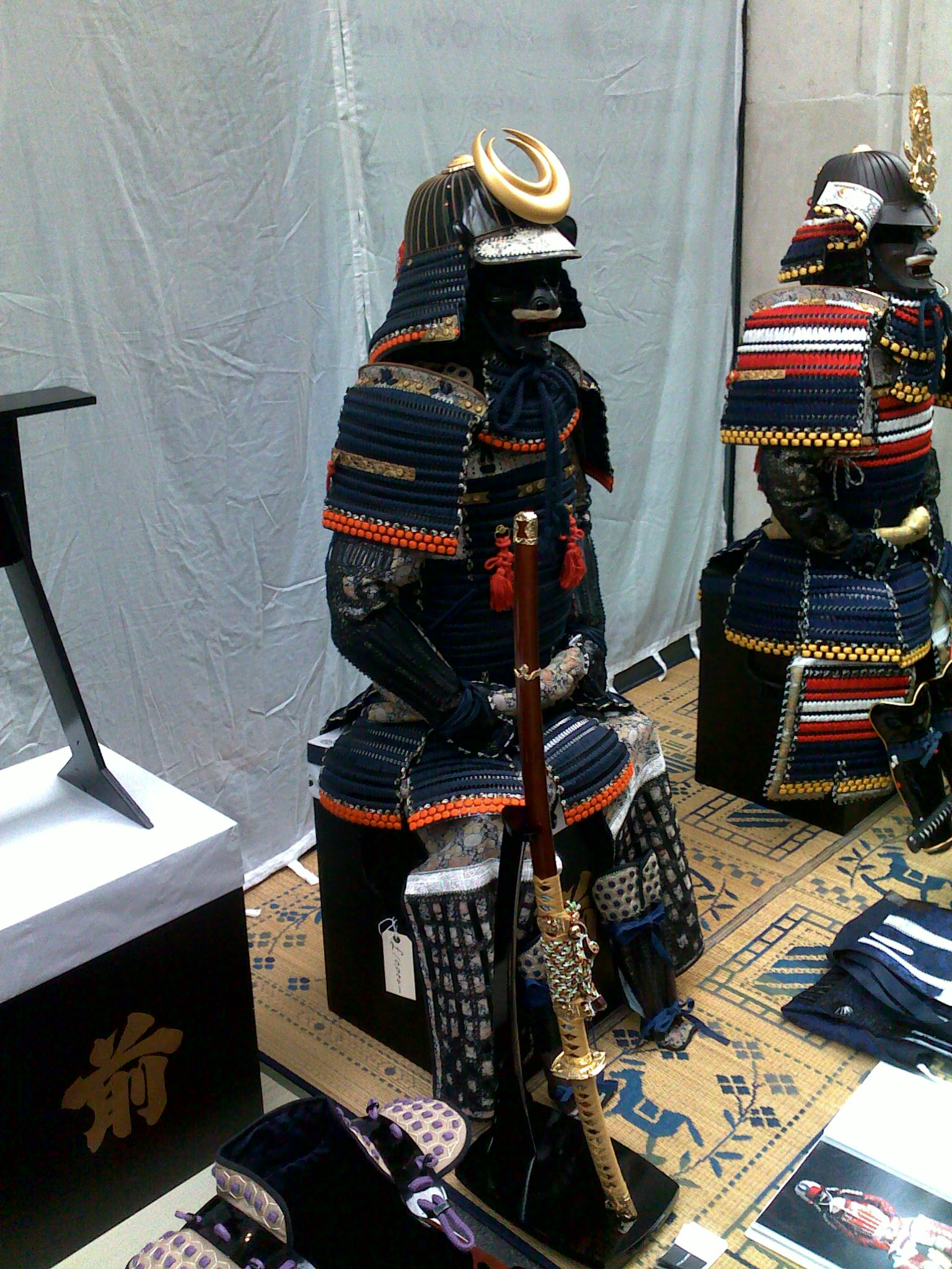 Sets of full samurai armour displayed at Japan Matsuri Festival, Spitalfields, London